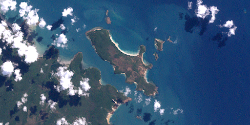 Manar Islands, with Albany Island in the center, Torres Strait Islands, Queensland, Australia